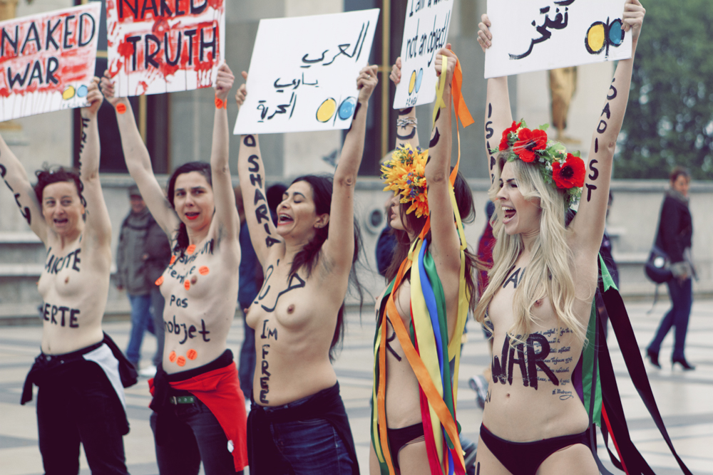 Femen protest in support to Aliaa Magda Elmahdy